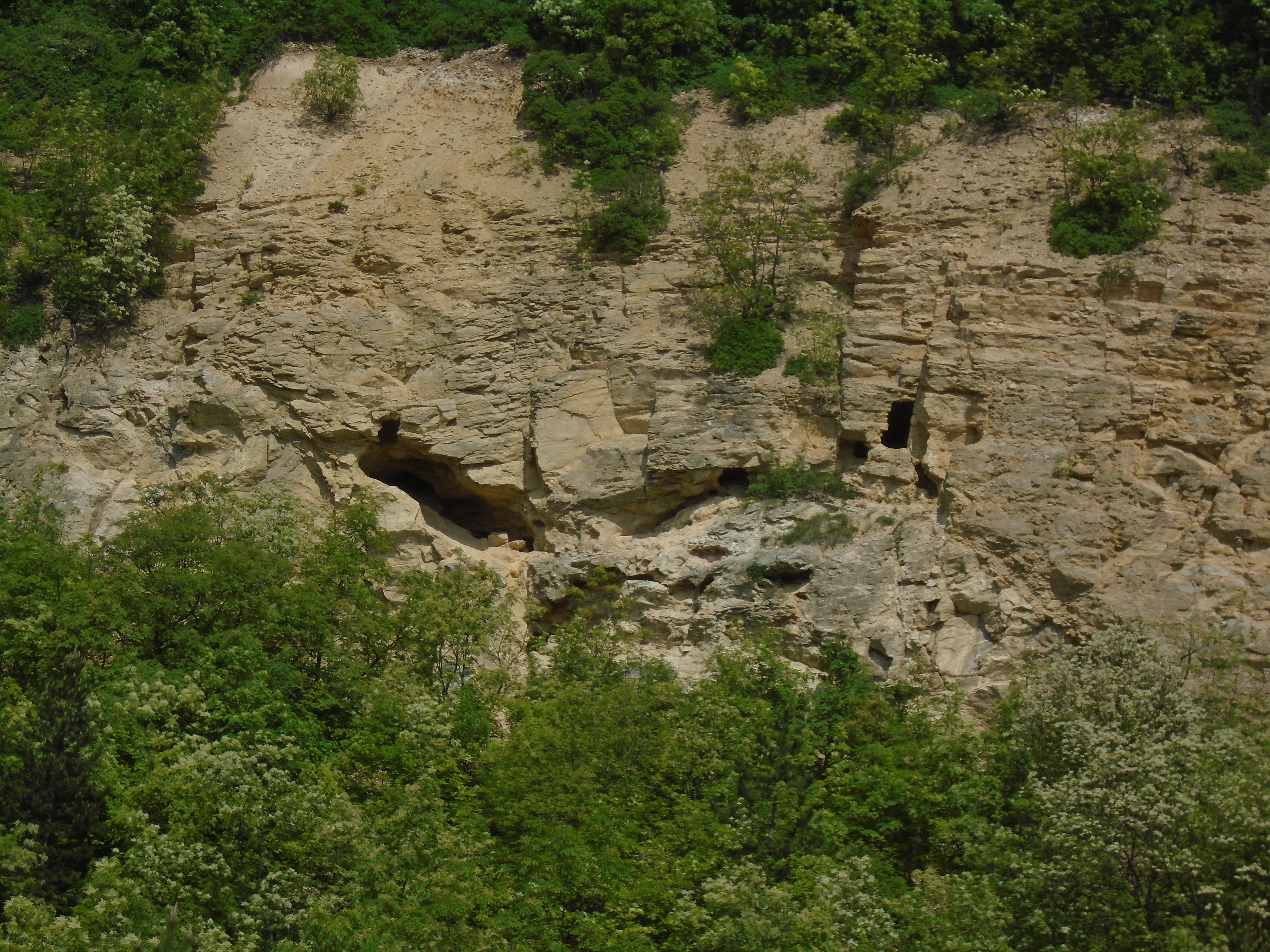 Entrance of Keleti quarry No 3 Cave.